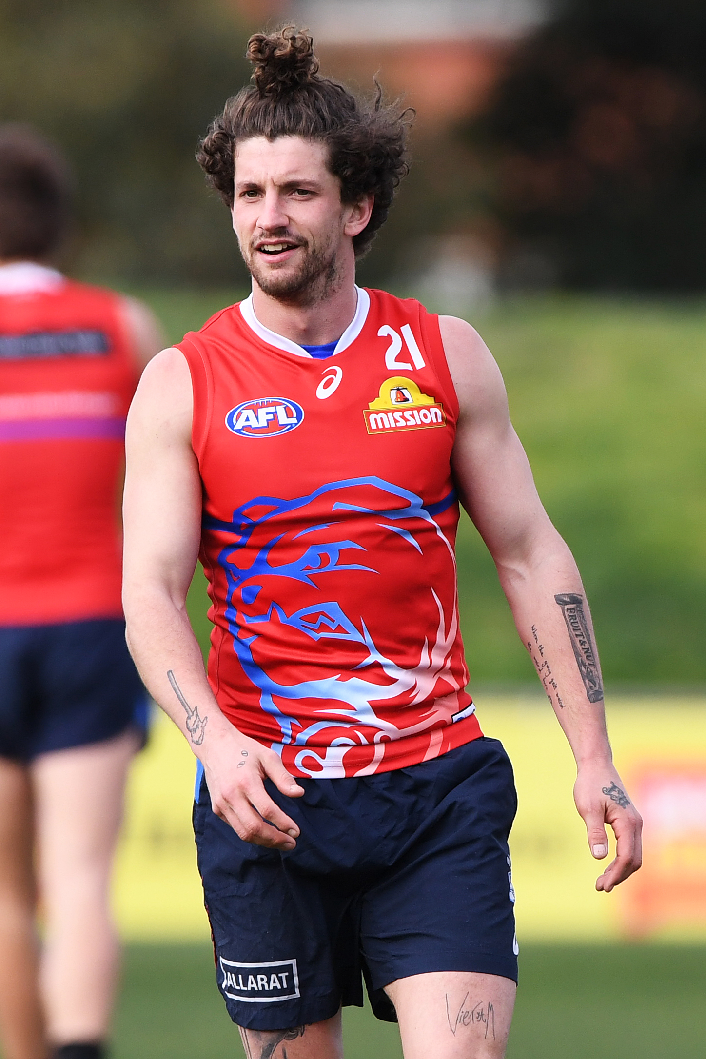 Tom Liberatore of the Western Bulldogs during Western Bulldogs training on 7 August 2018 at Whitten Oval in Melbourne, Victoria.